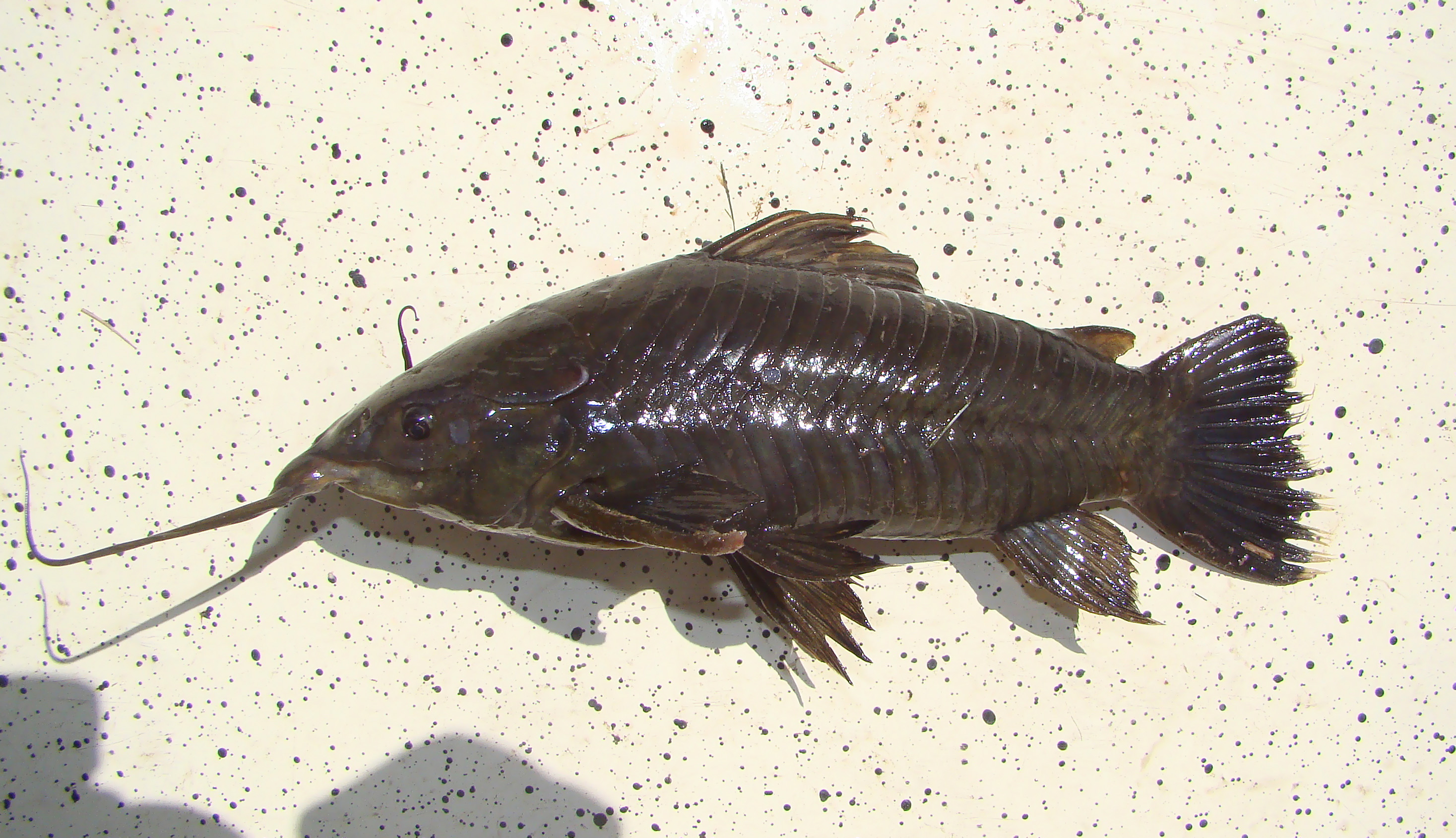 Hoplosternum littorale from Paraná River, Argentina, photographed in March 2010.